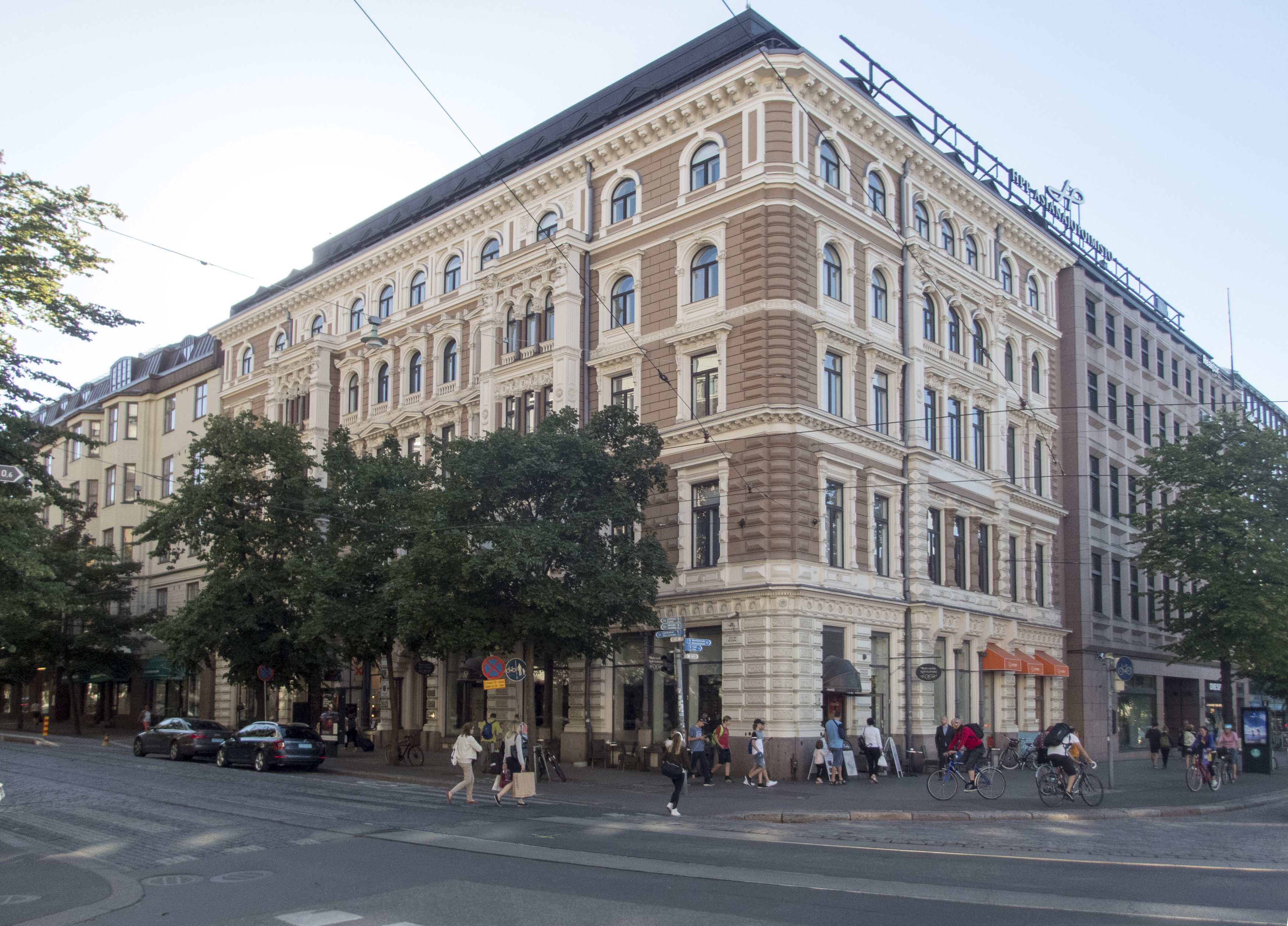 Bulevardi 1 - Mannerheimintie 2, Helsinki. Built in 1890. Architect Theodor Höijer